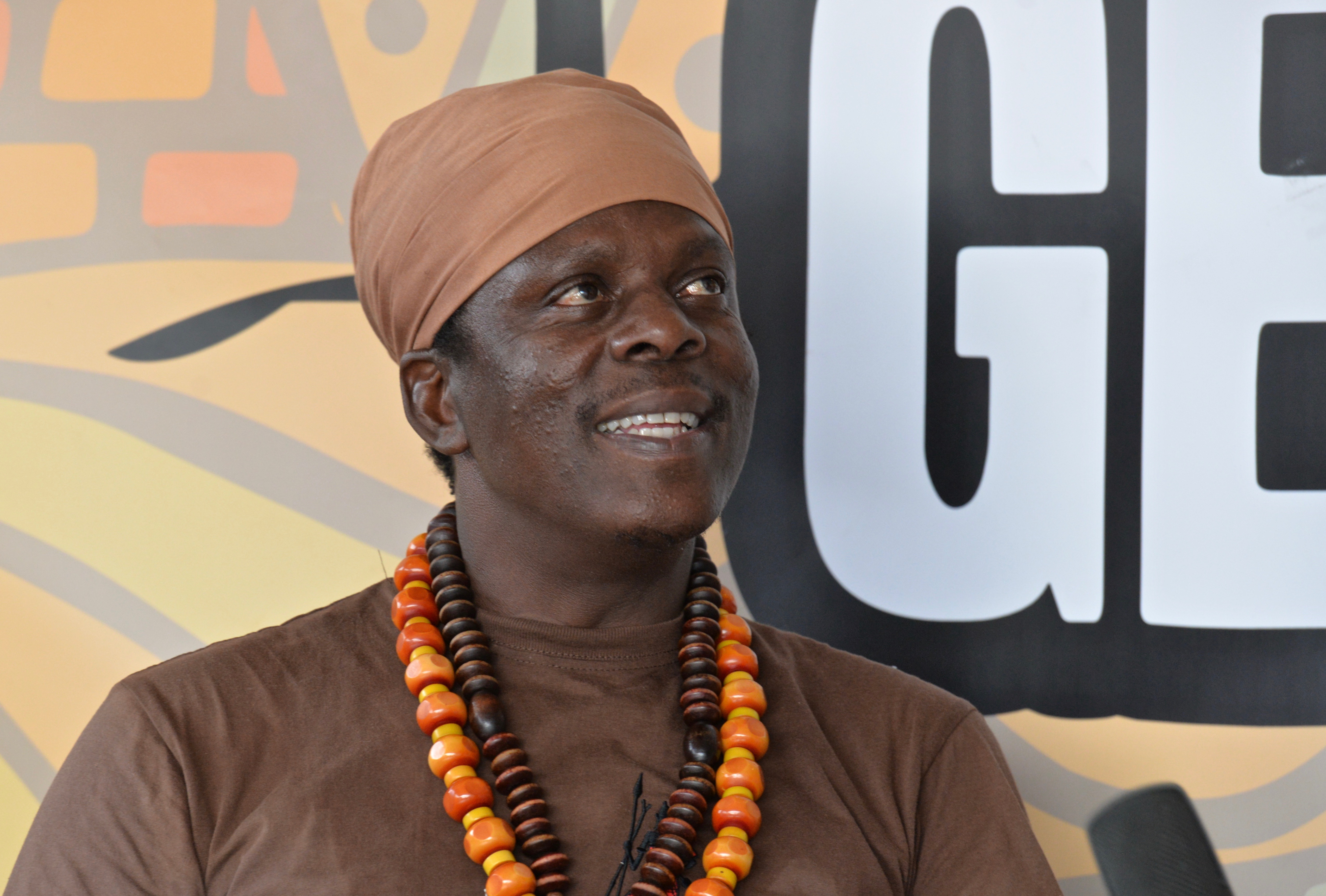 Richie Spice, Reggae Geel, August 3 2019, Belgium.